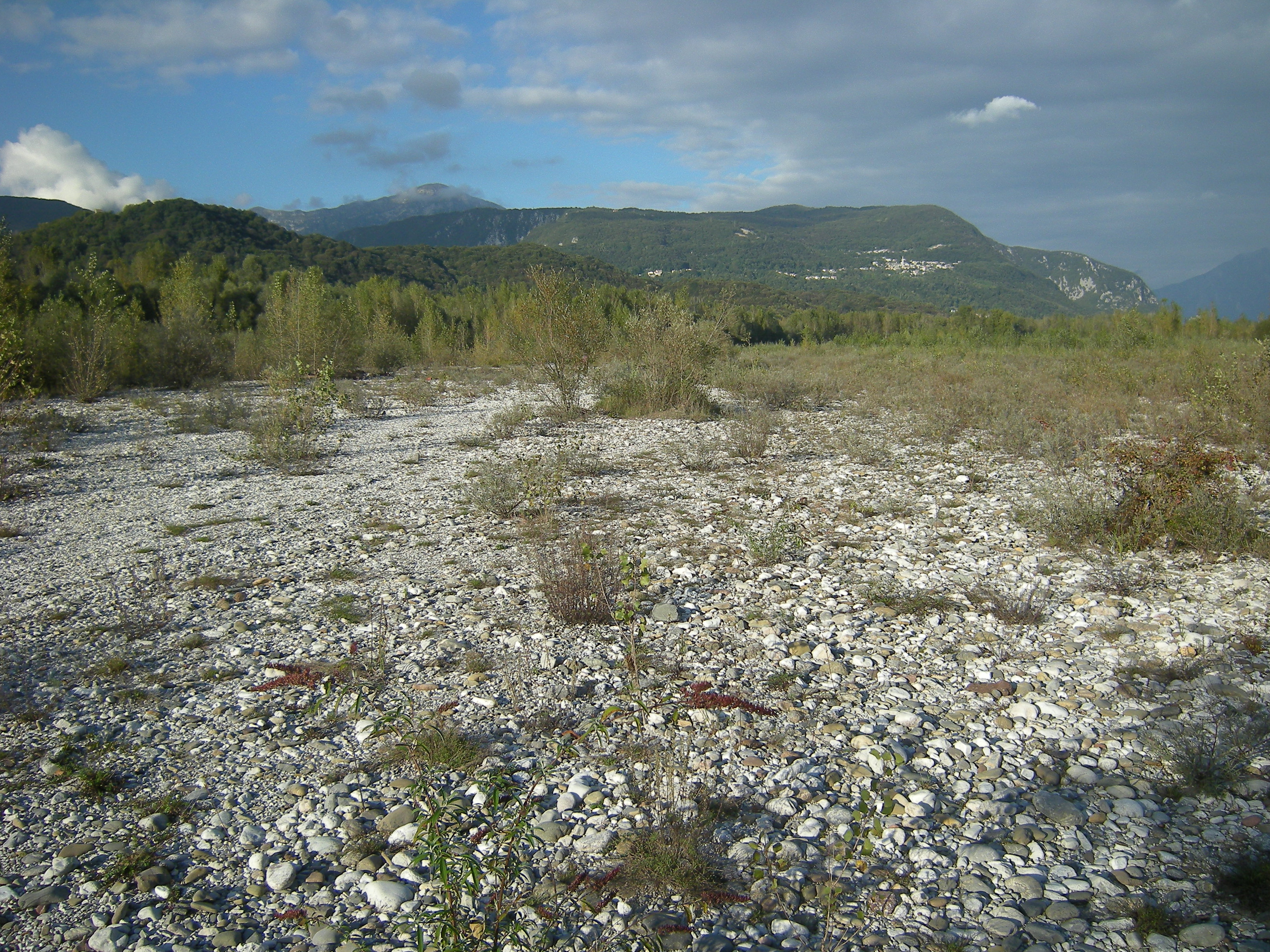 Transition from magredo to wood - Tagliamento river - Northeast Italy